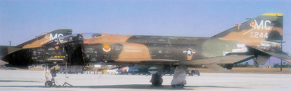 F-4D of the 61st Tactical Fighter Squadron, MacDill Air Force Base Florida.